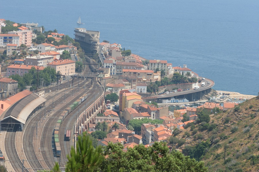 An oversight Of Cerbere's Station and the center of the town